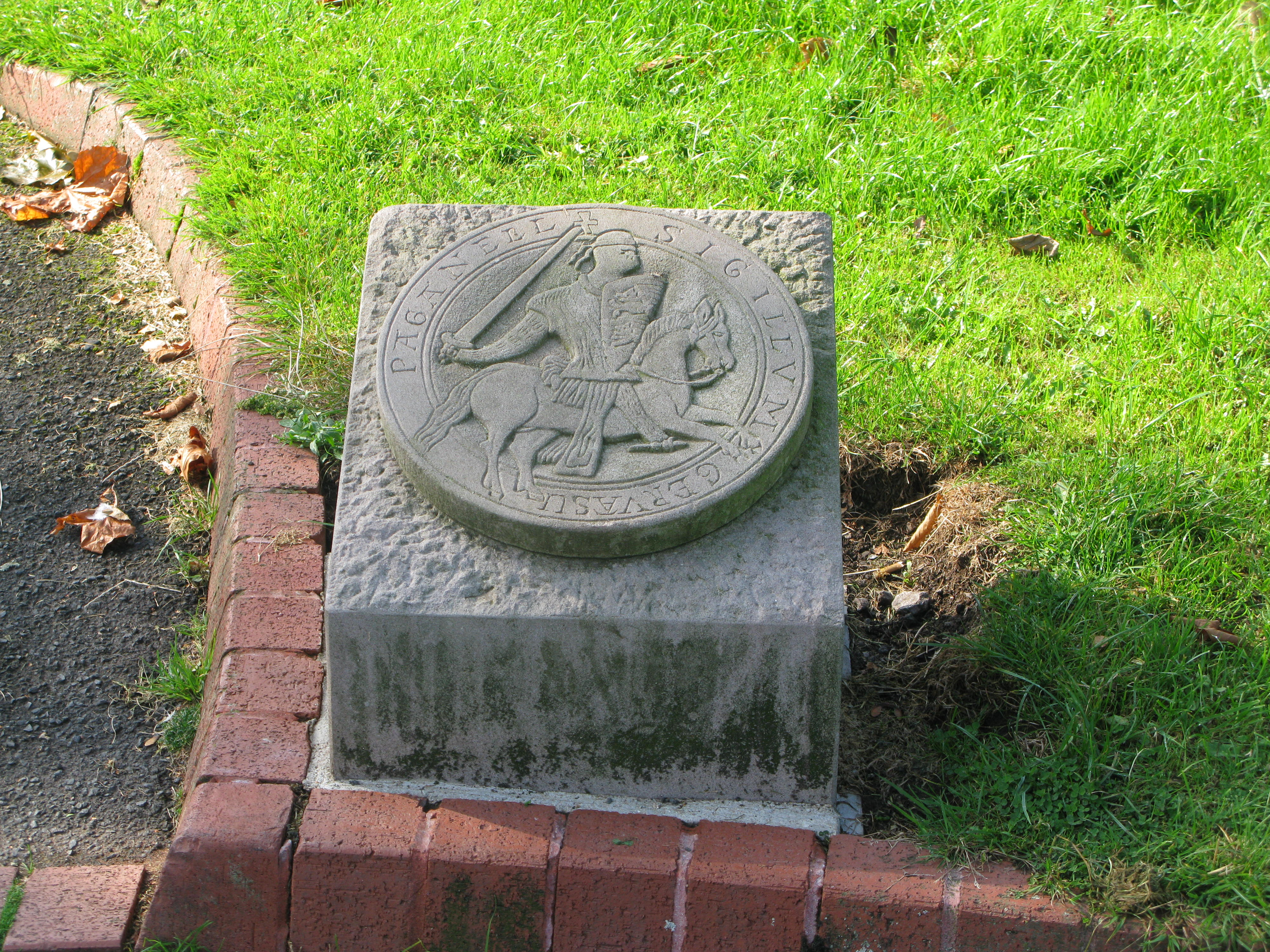 At the eastern entrance adjacent ot the priory ruins: left hand side